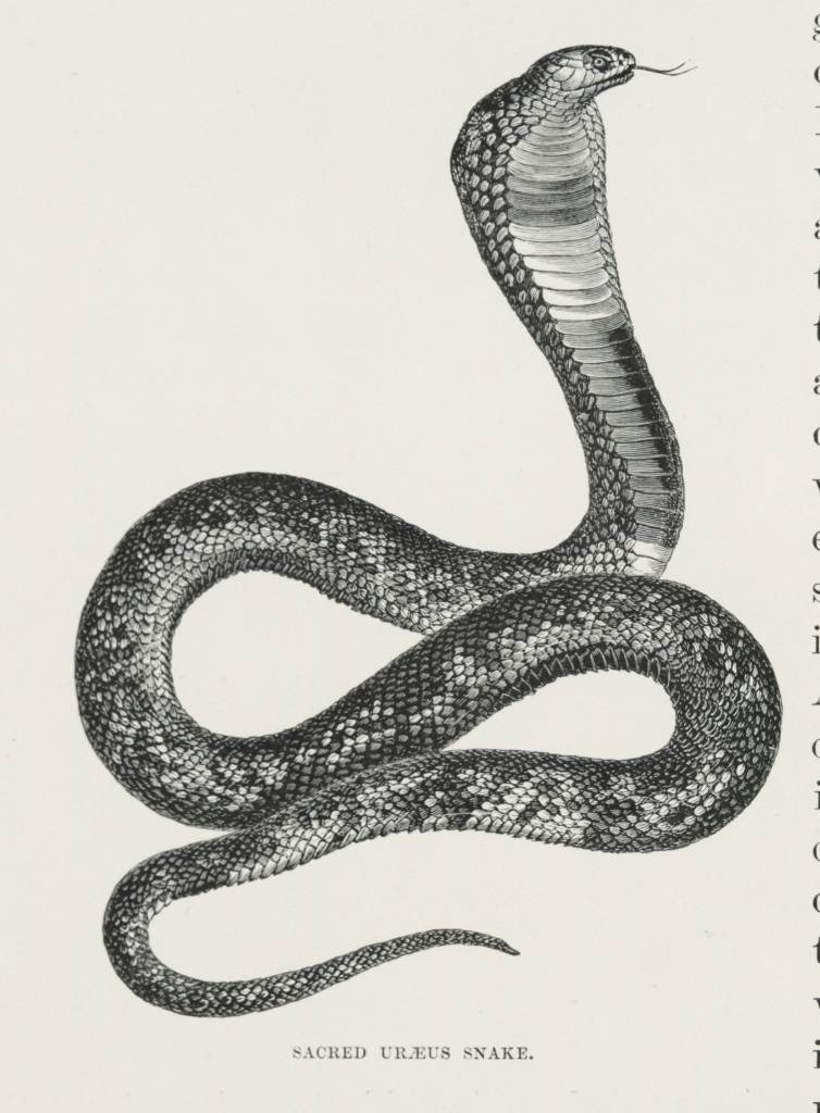 A cobra.